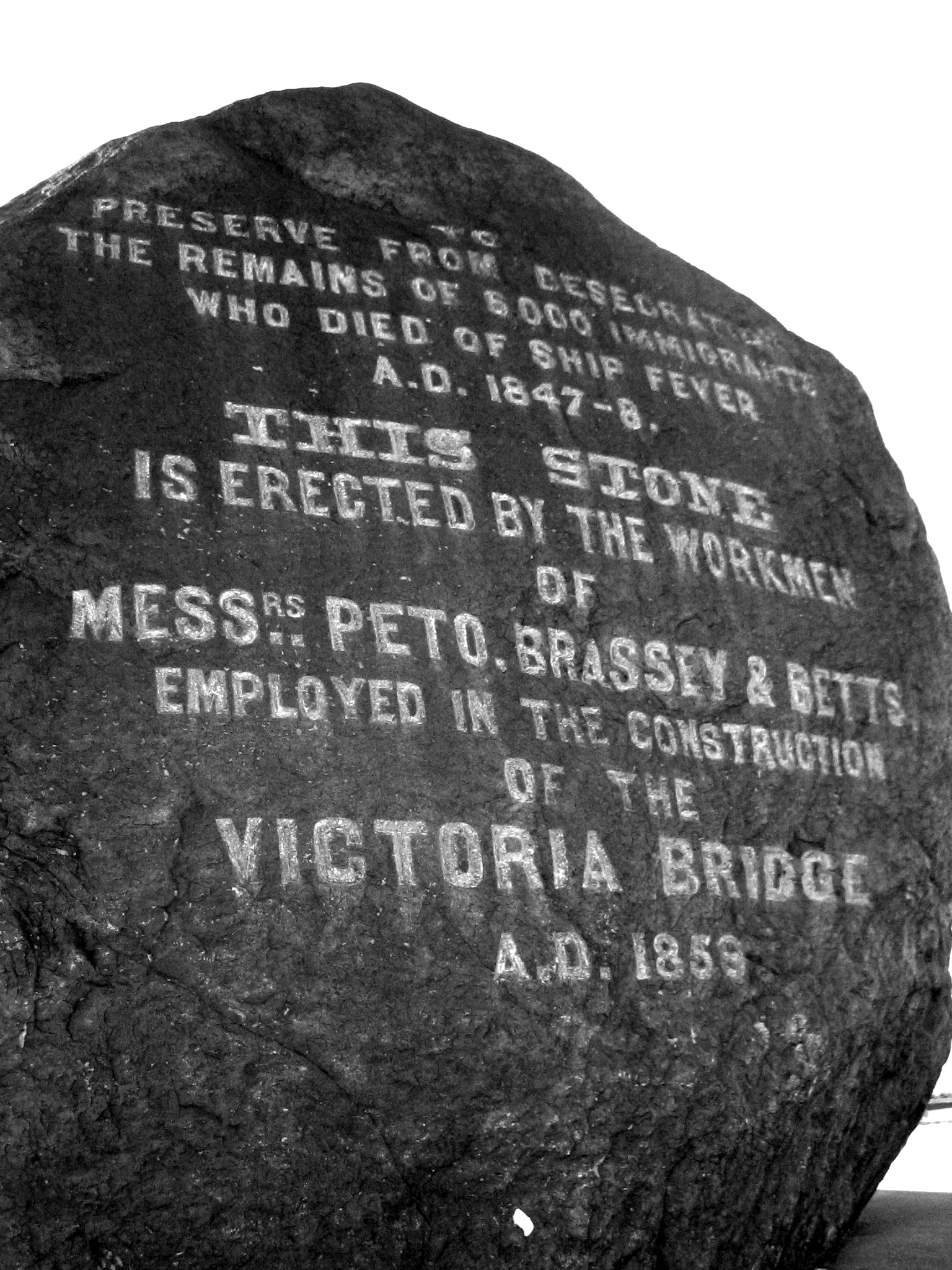 When they were building Victoria Bridge (Montreal), the workers discovered the remains of Irish immigrants who died in the fever sheds - quarantined with Typhus ( "Ship fever"). This rock was thus moved and put here to remember the memory of those who died there.